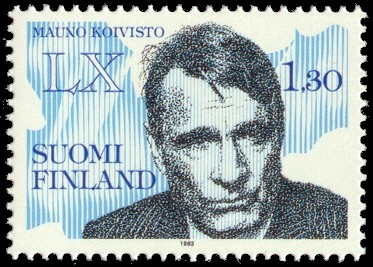 Postage stamp portraying the President of Finland Mauno Koivisto